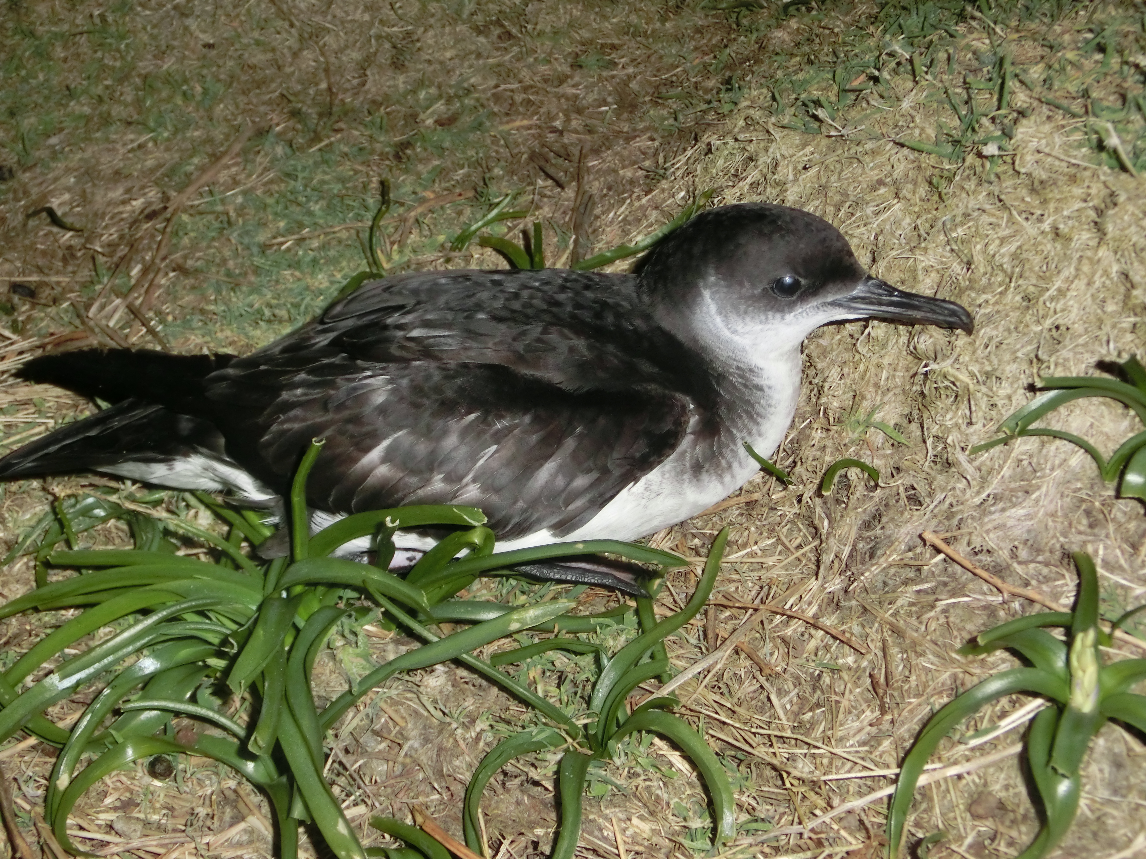 Manx Shearwater ((Puffinus puffinus) at the breeding grounds on Skomer Island, Pembrokeshire, Wales, UK